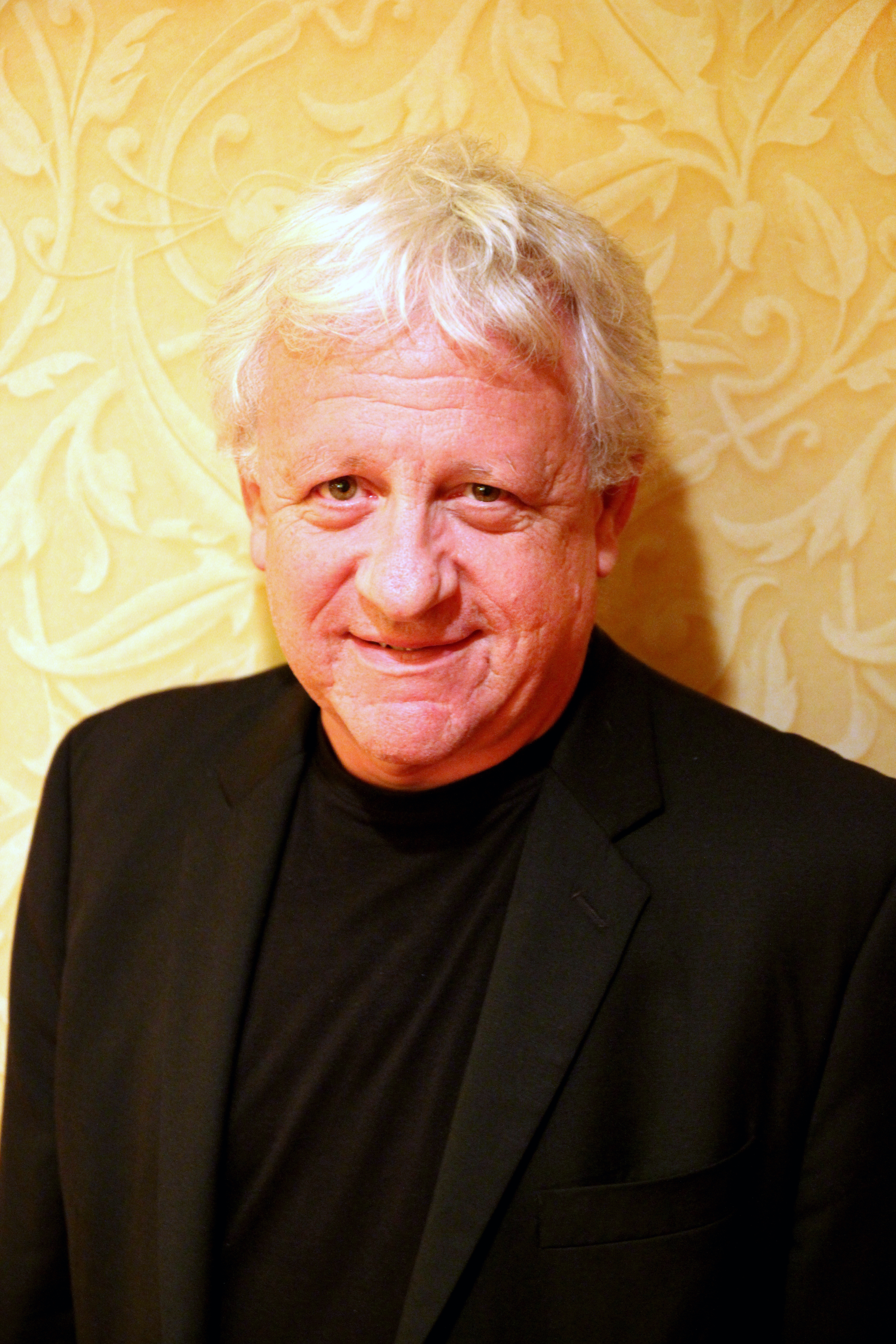 Stuart Firestein at TAM 2012